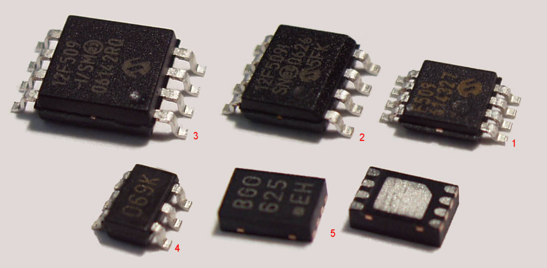 some small and different Microchip PIC Microcontroller